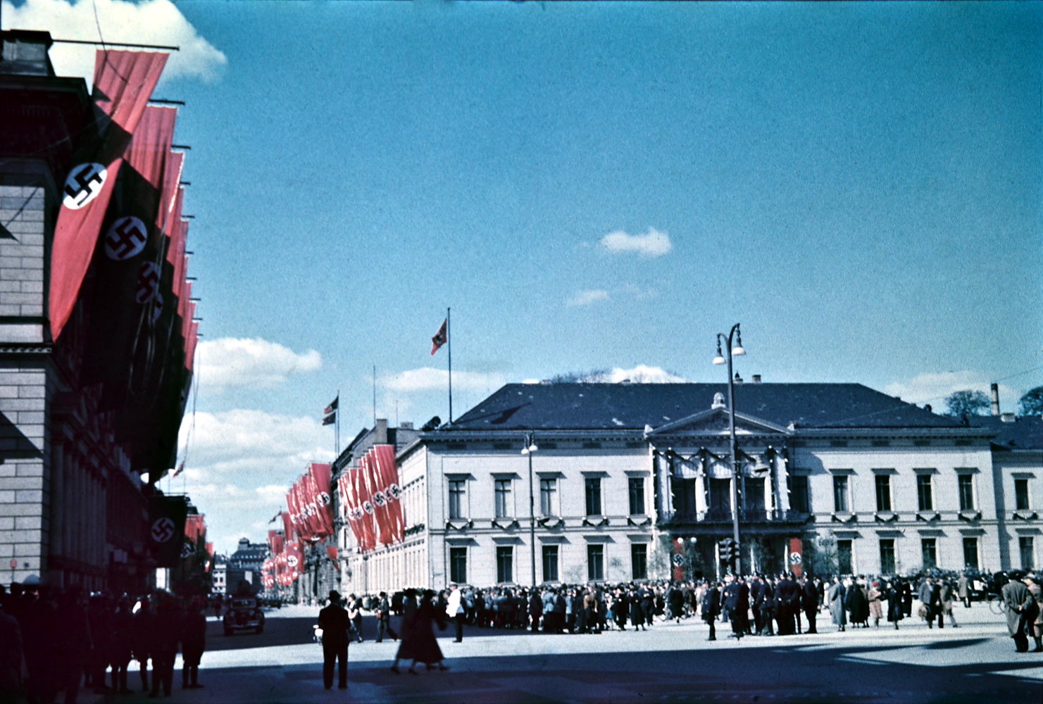 Decorated streets in Berlin, presumably Labour Day (May 1st). Large crowd, flags with swastika